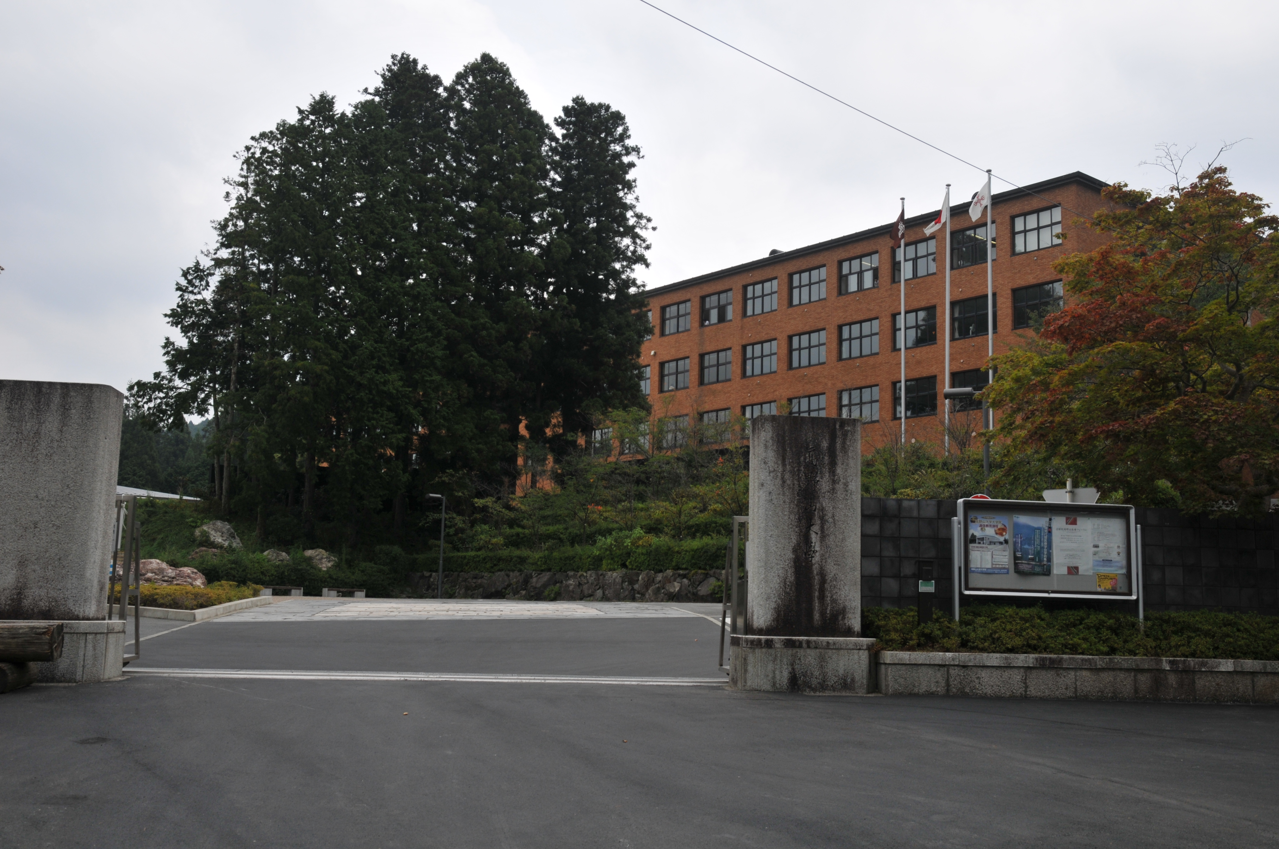 Entrance of Kōyasan University